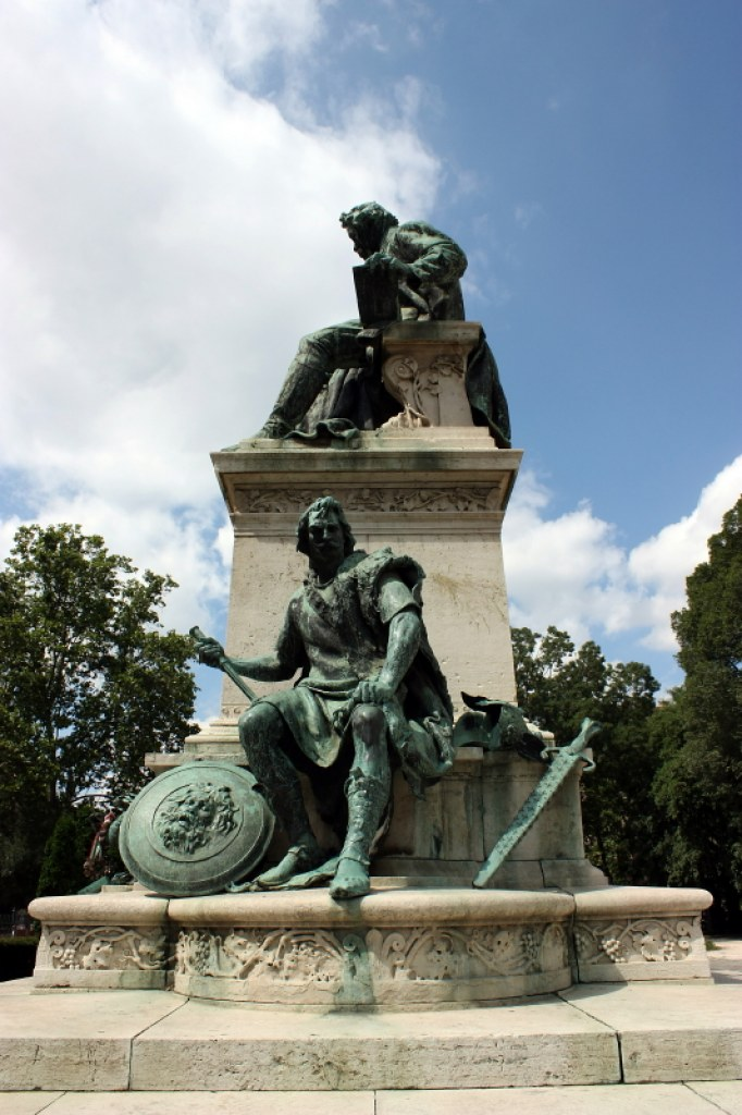 Statute of Miklós Toldi